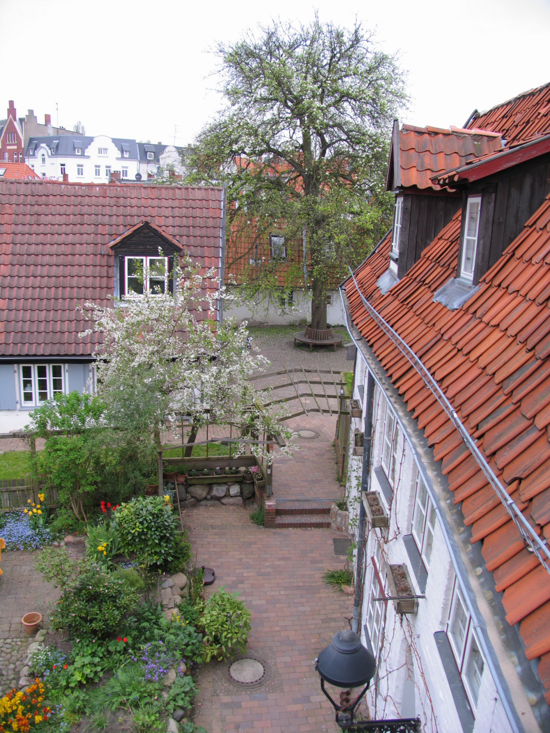 Lübeck Adlergang